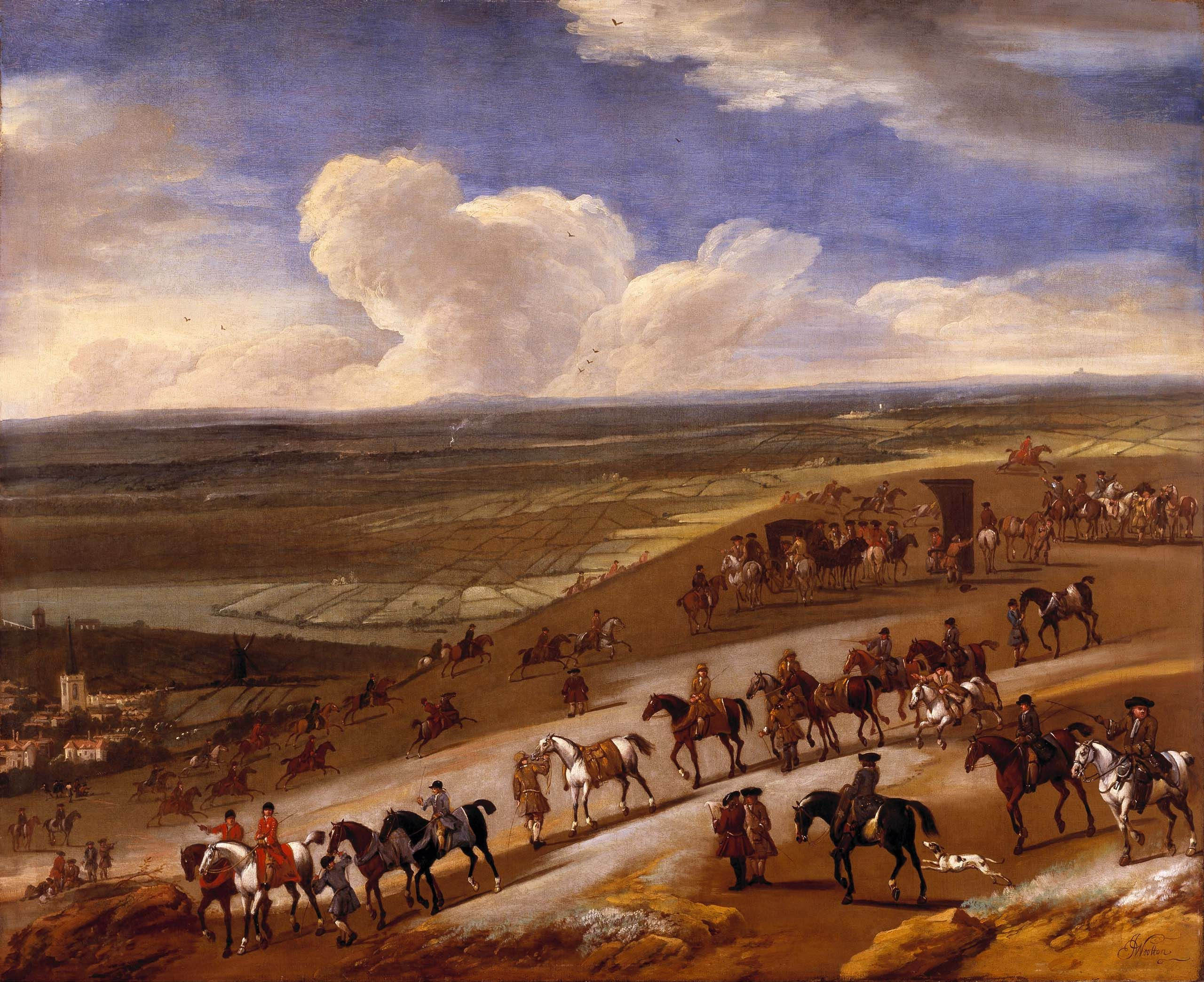 The Warren Hill at Newmarket. Oil on Canvas. 40 x 50 in (100 x 125 cm).